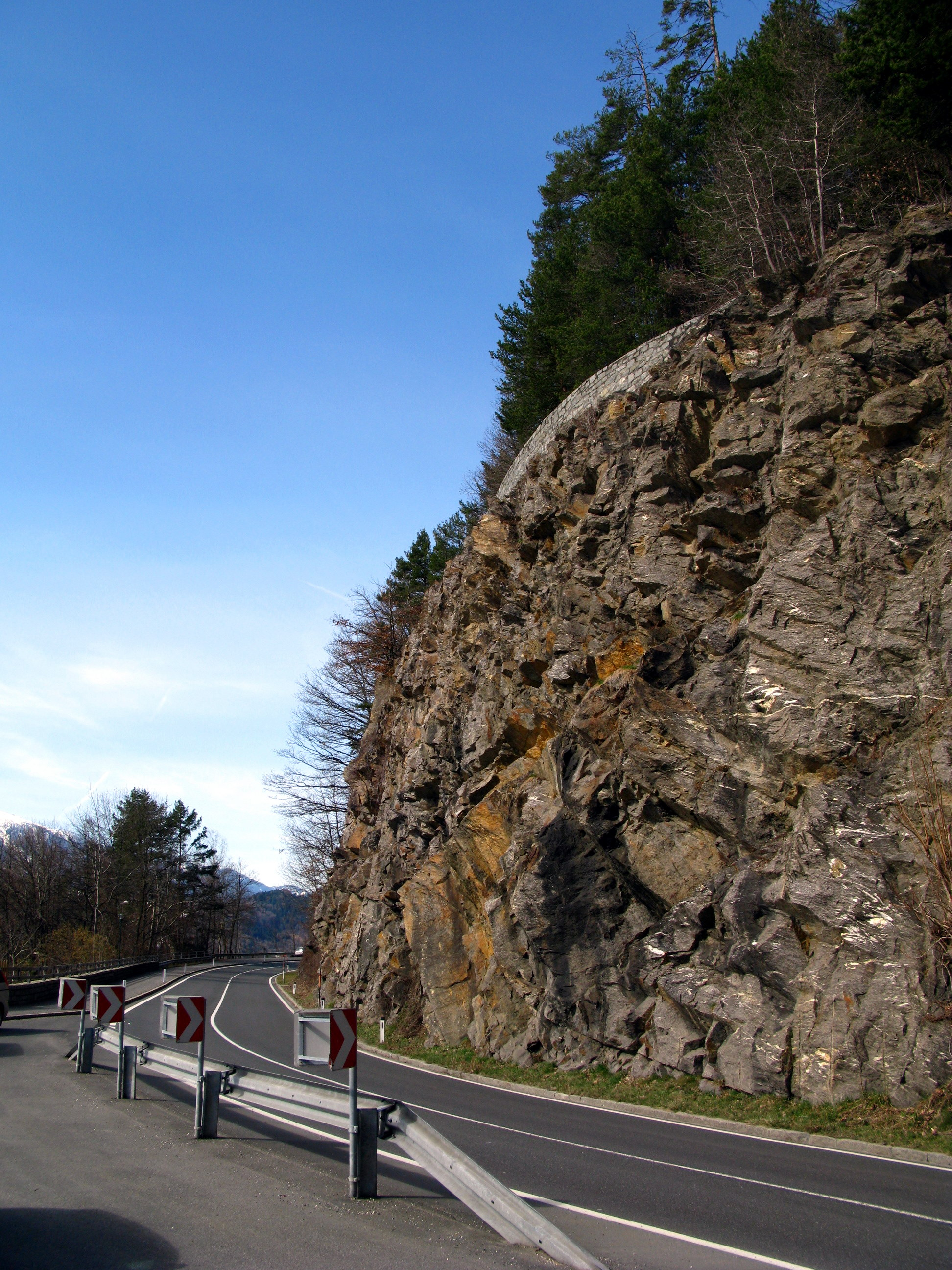 Climber over Lake Millstatt in Carinthia / Austria / EU.